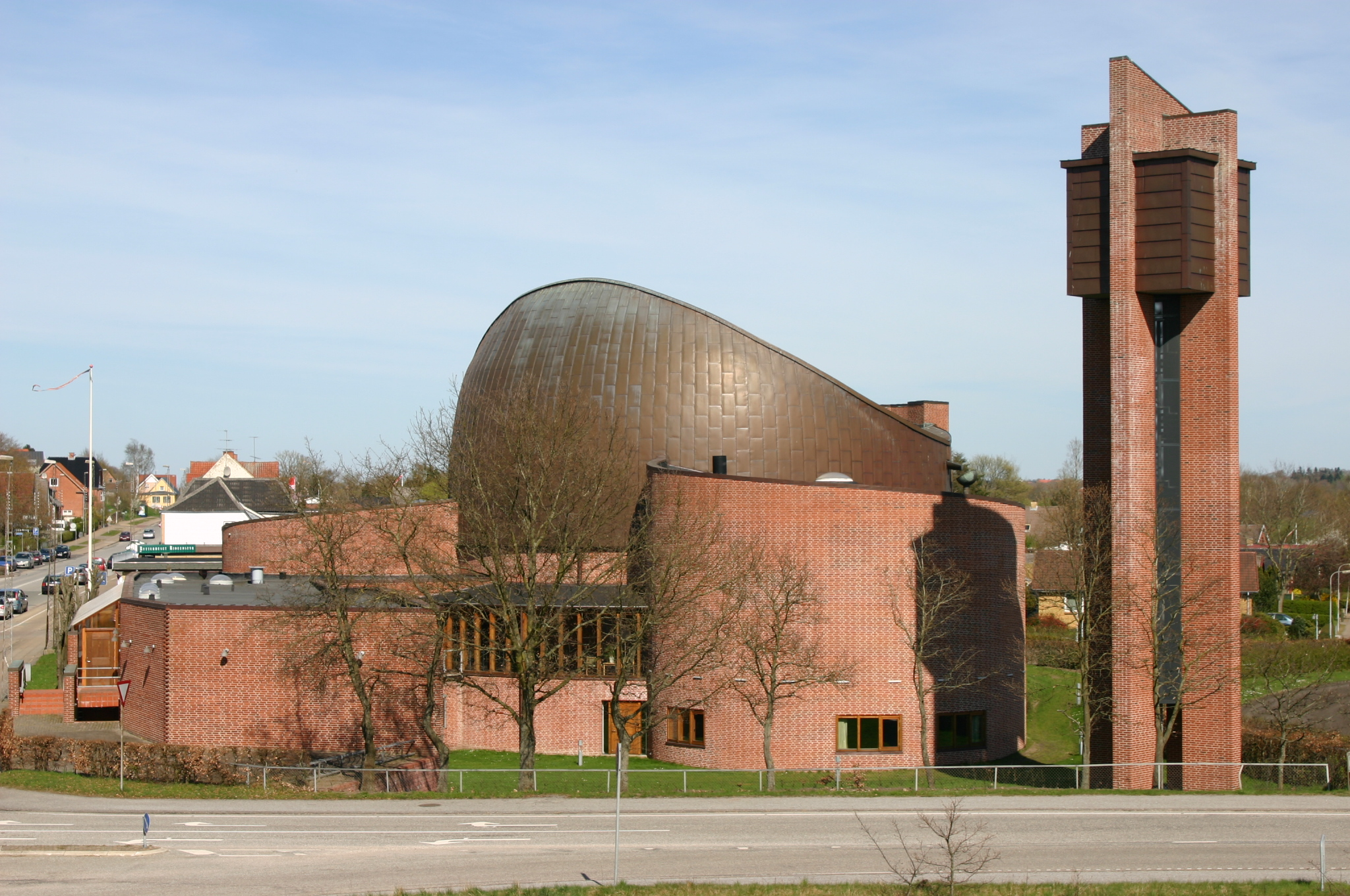 Søndermarks Church, Viborg, Denmark (Lutheran-Evangelical, Danish National Church) Søndermarkskirken i Viborg. Arkitekt: Svend Frandesen)